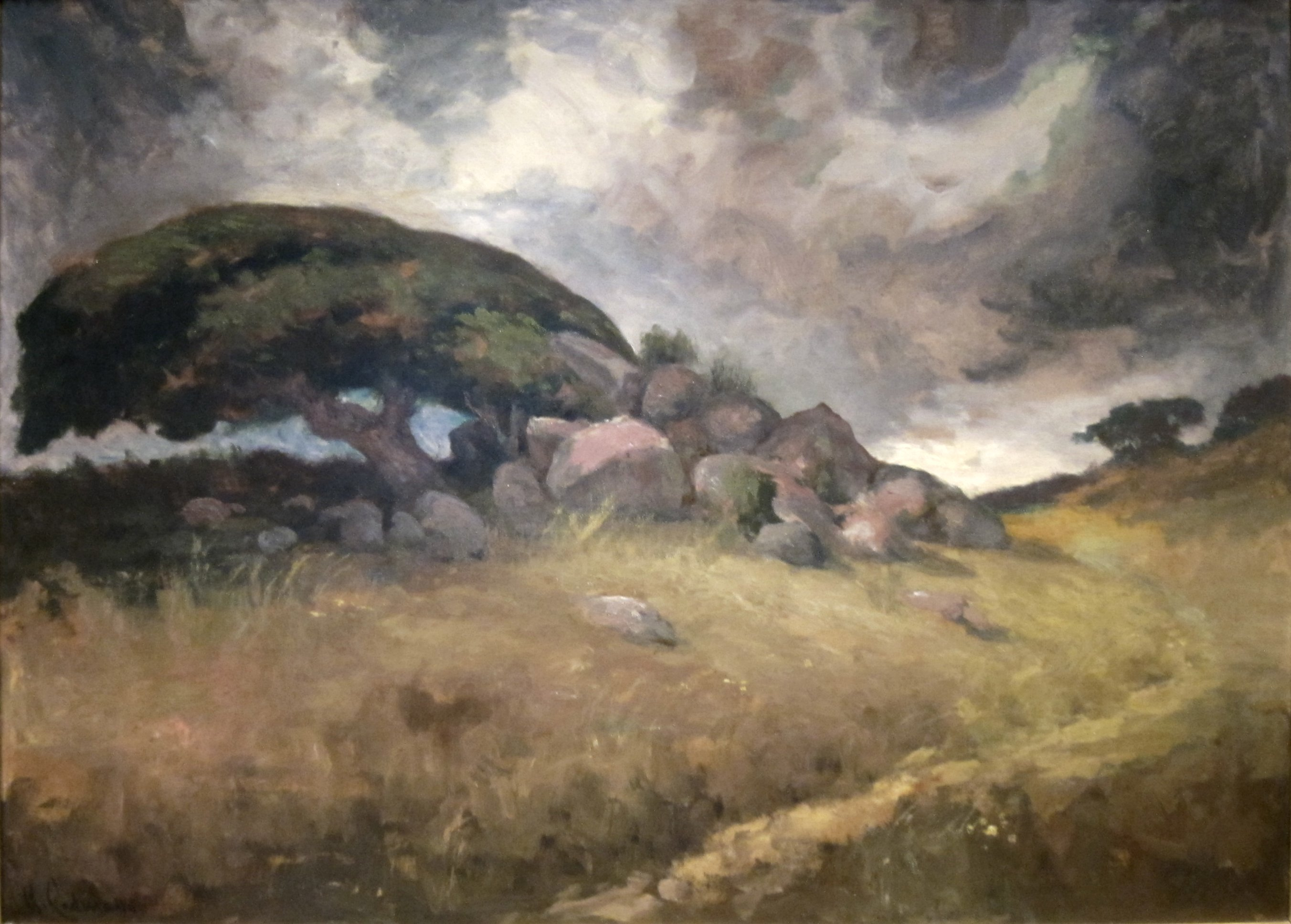 The Storm